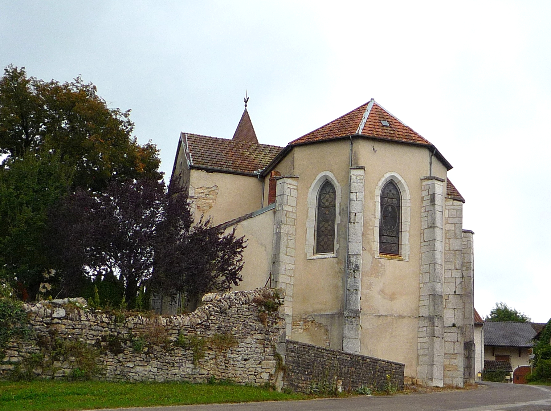 The back of the Church of Aromas, Jura department, France. September 2012.